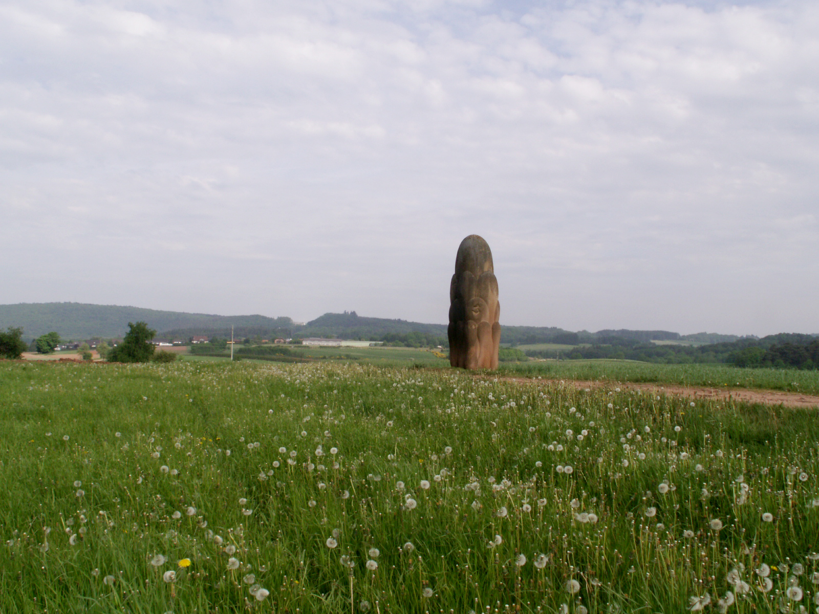 Street of Sculptures - Strasse der Skulpturen – Franz Xaver Ölzant, o. T., 1971